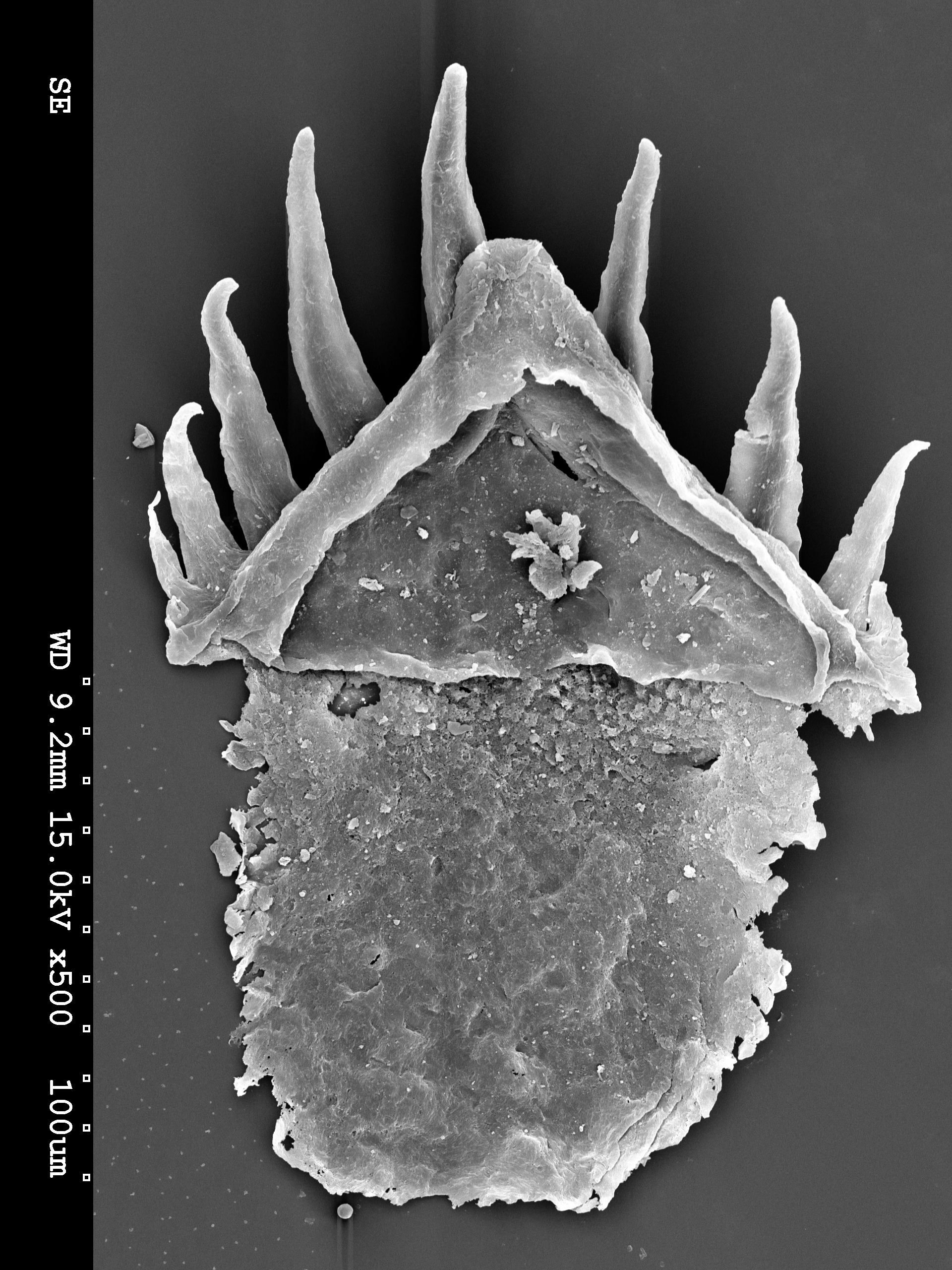 Small Carbonaceous Fossil of a Type B pharyngeal tooth from Ottoia prolifica